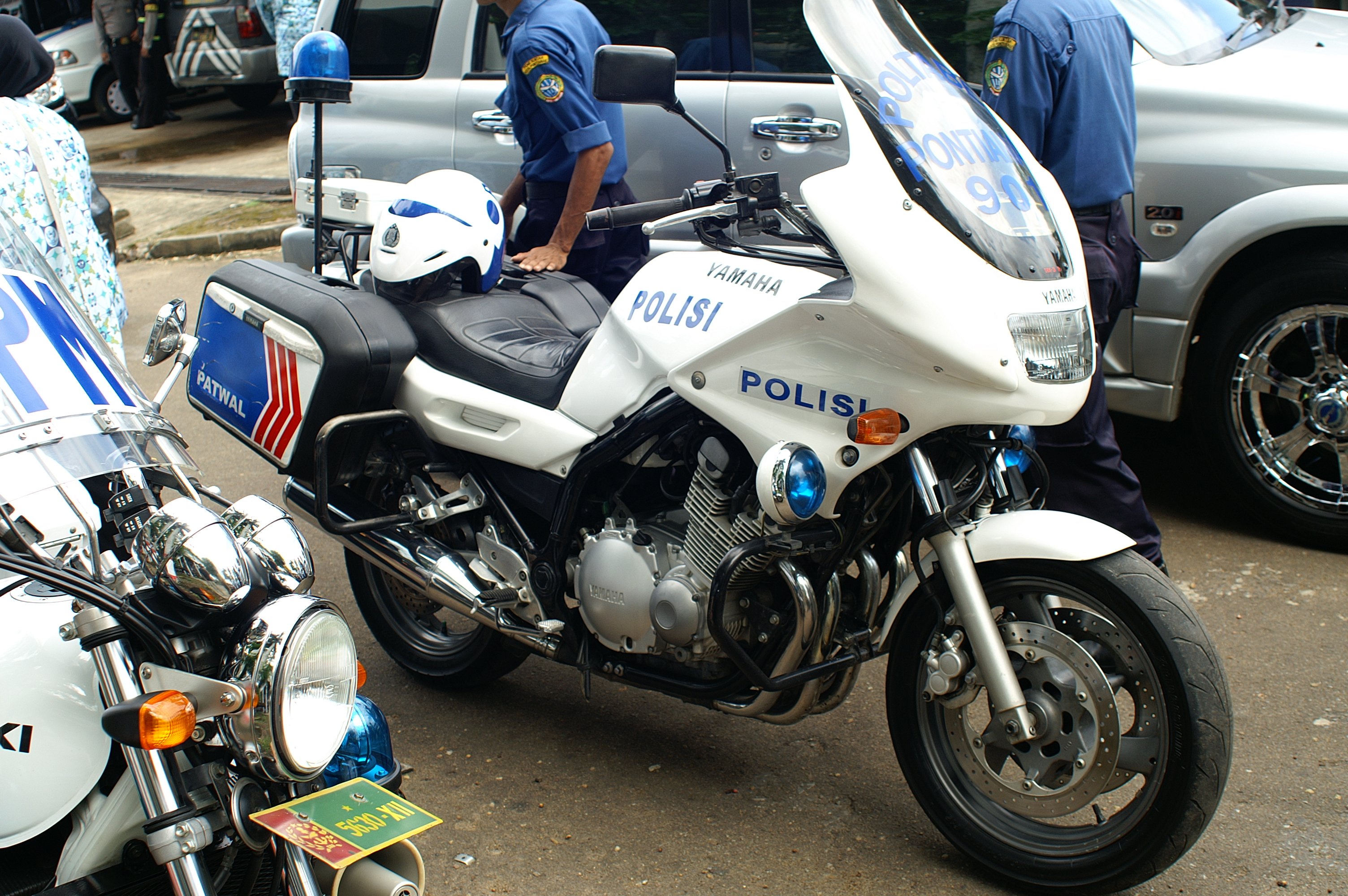 Yamaha XJ900S of the Indonesian Police.